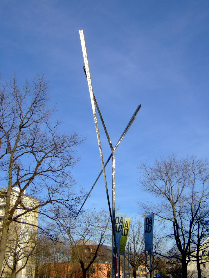 kinetic art sculpture in Bonn, Germany